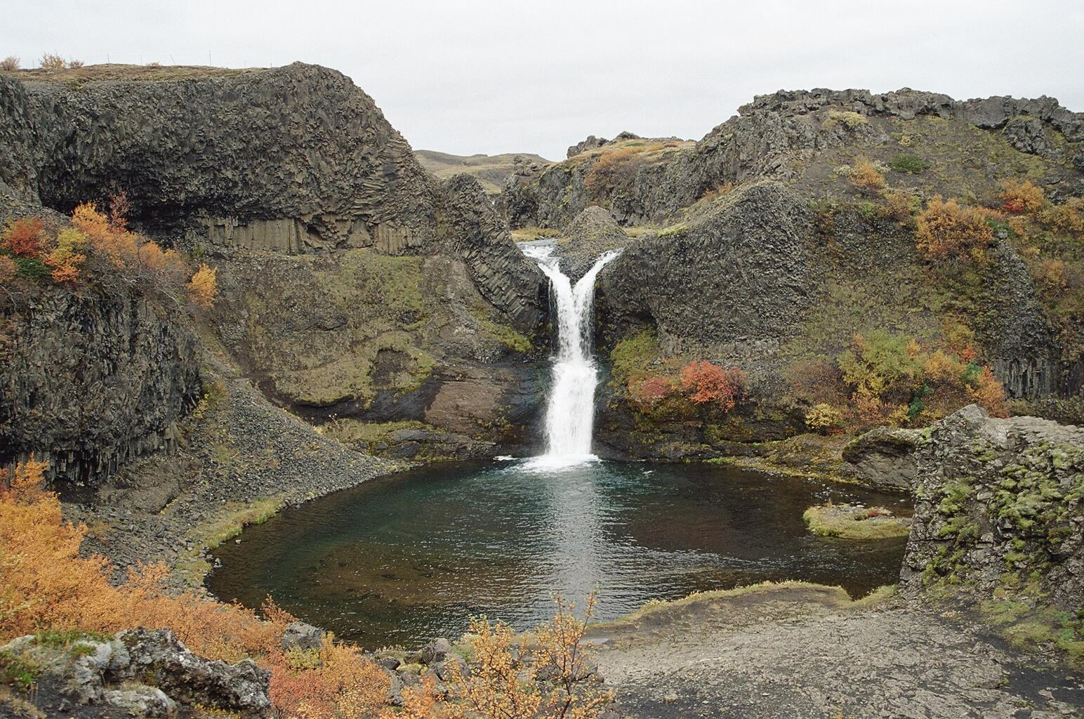 Gjáin Herbst 2004, GNU-FDL I took the photo my-self in october 2004.